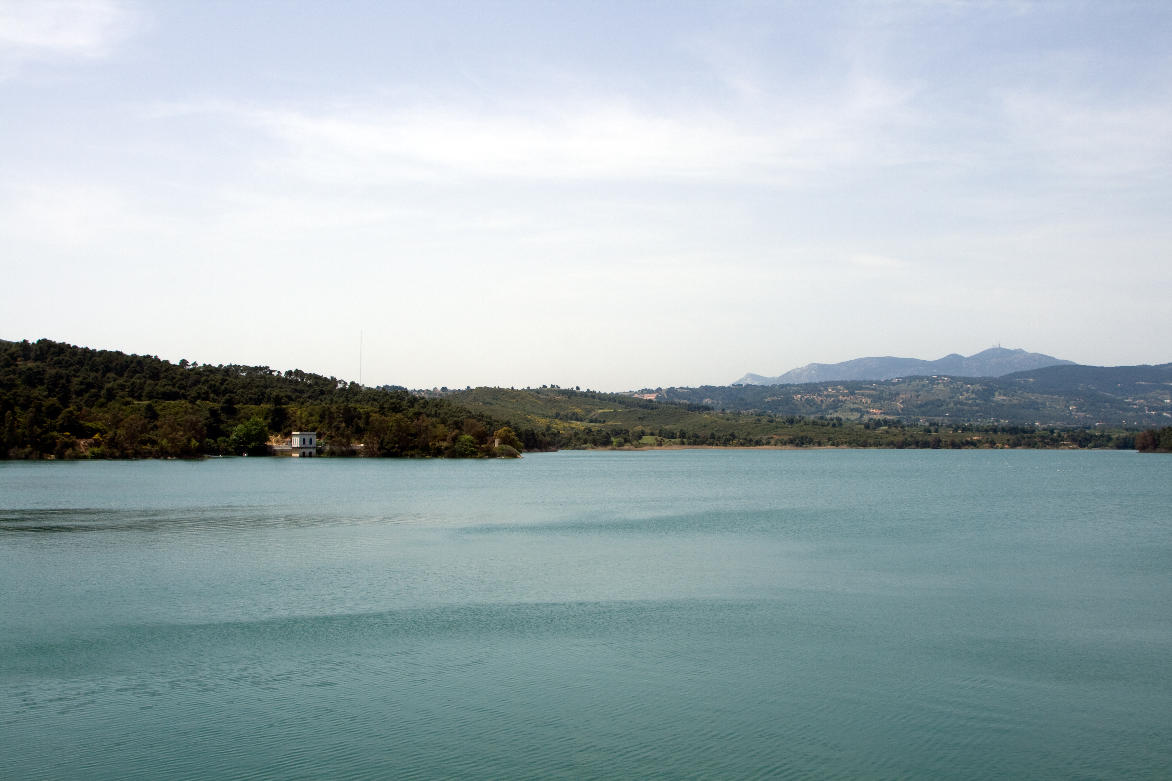 Lake Marathon, Greece